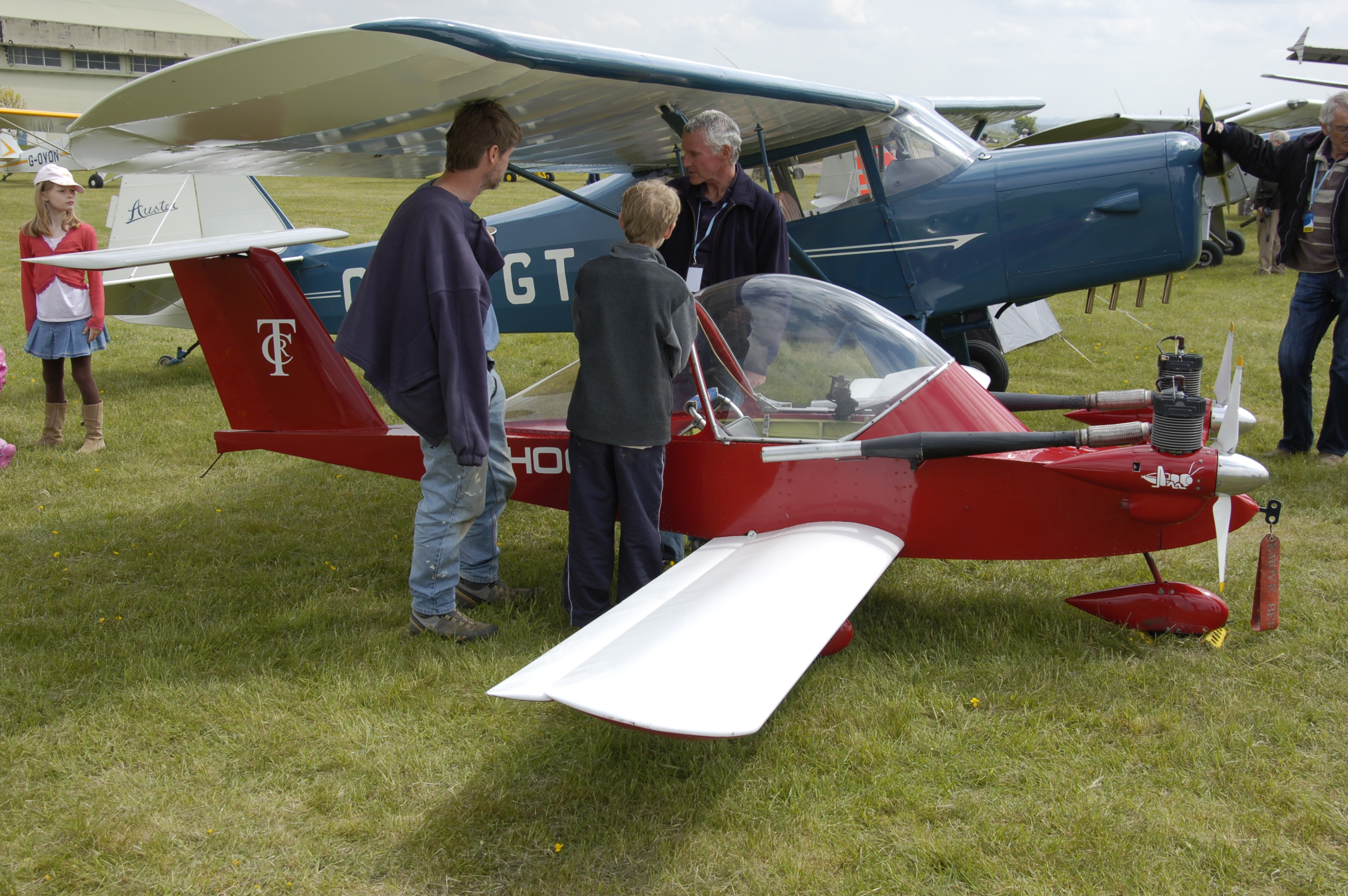 1984 Colomban MC-15 Cri-cri (G-SHOG) at Cotswold Airport, Gloucestershire, England. The blue background aircraft is a 1995 Crofton Auster J/1A homebuild (G-BVGT) ). Note (to give scale) that the Colomban is completely under the Auster’s wing.